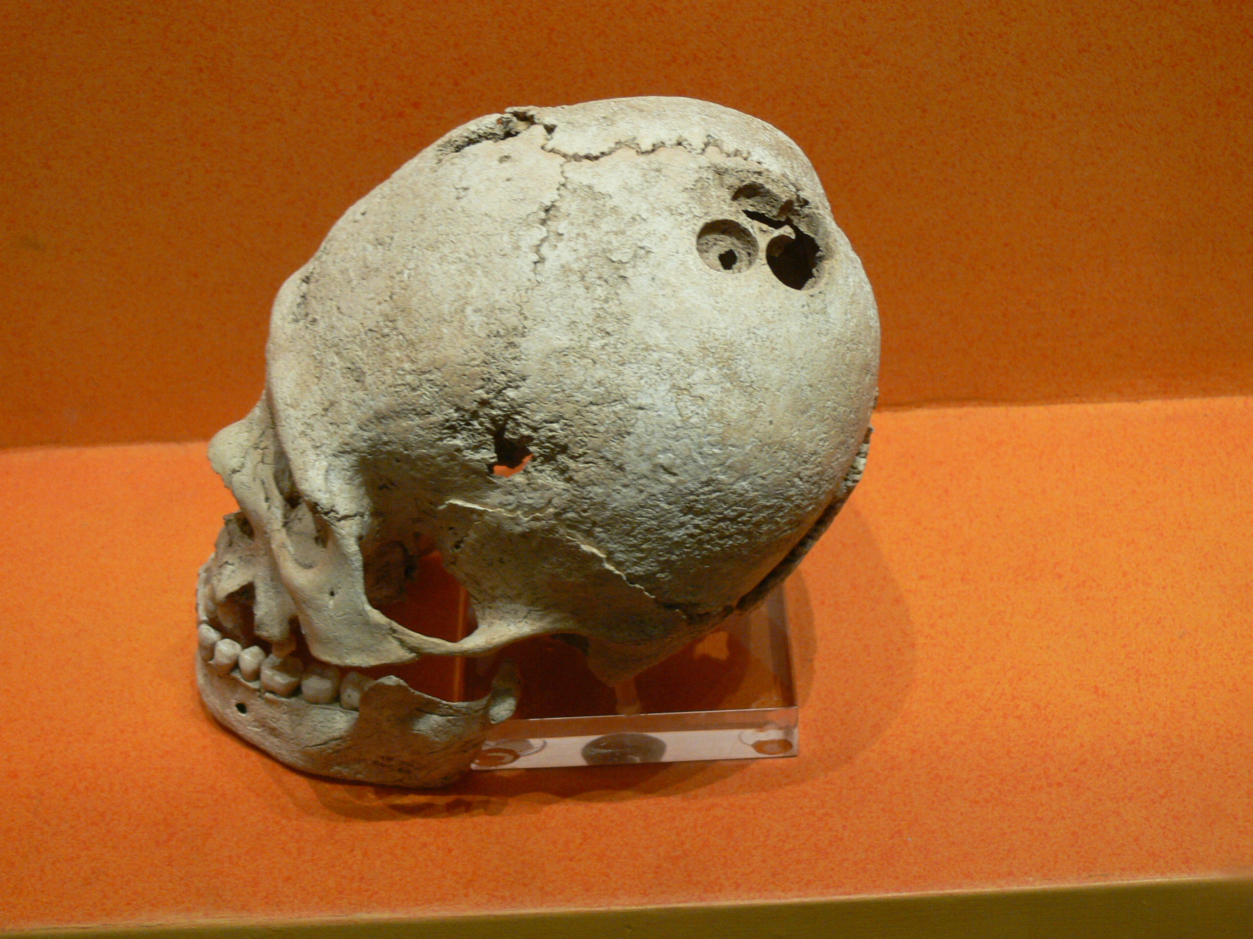 Monte Albán - Museo del Sitio. Human skull with trepanations